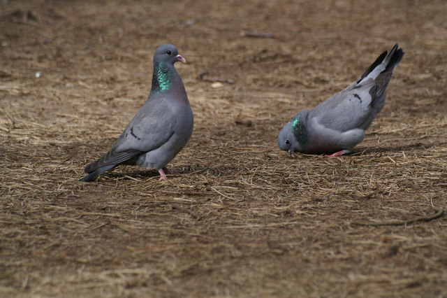 Stock Dove, Formby The male on the right is displaying to the female on the left.